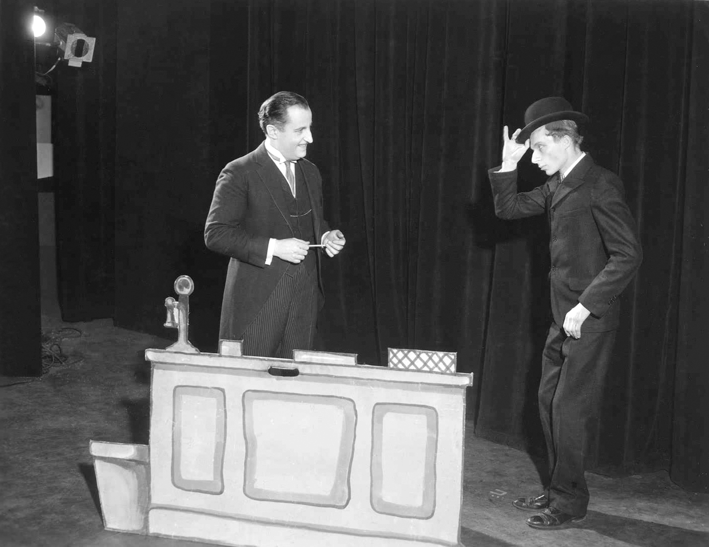 Photograph of Allan Tower (Electric Company Manager) and Norman Lloyd (Consumer) in the Federal Theater Project production of Power, a Living Newspaper play at the Ritz Theatre (February–August 1937)